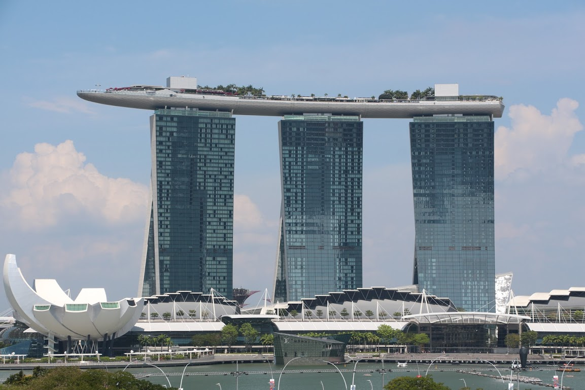 Picture of the iconic Marina Bay Sands, situated at Marina Bay in Singapore.